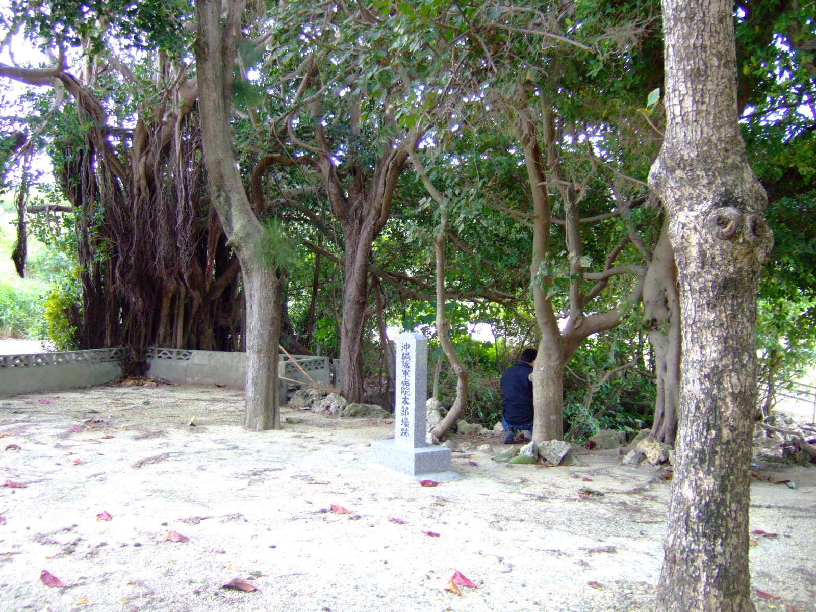 The cave of Okinawa military hospital (Yamashiro Headquarters)